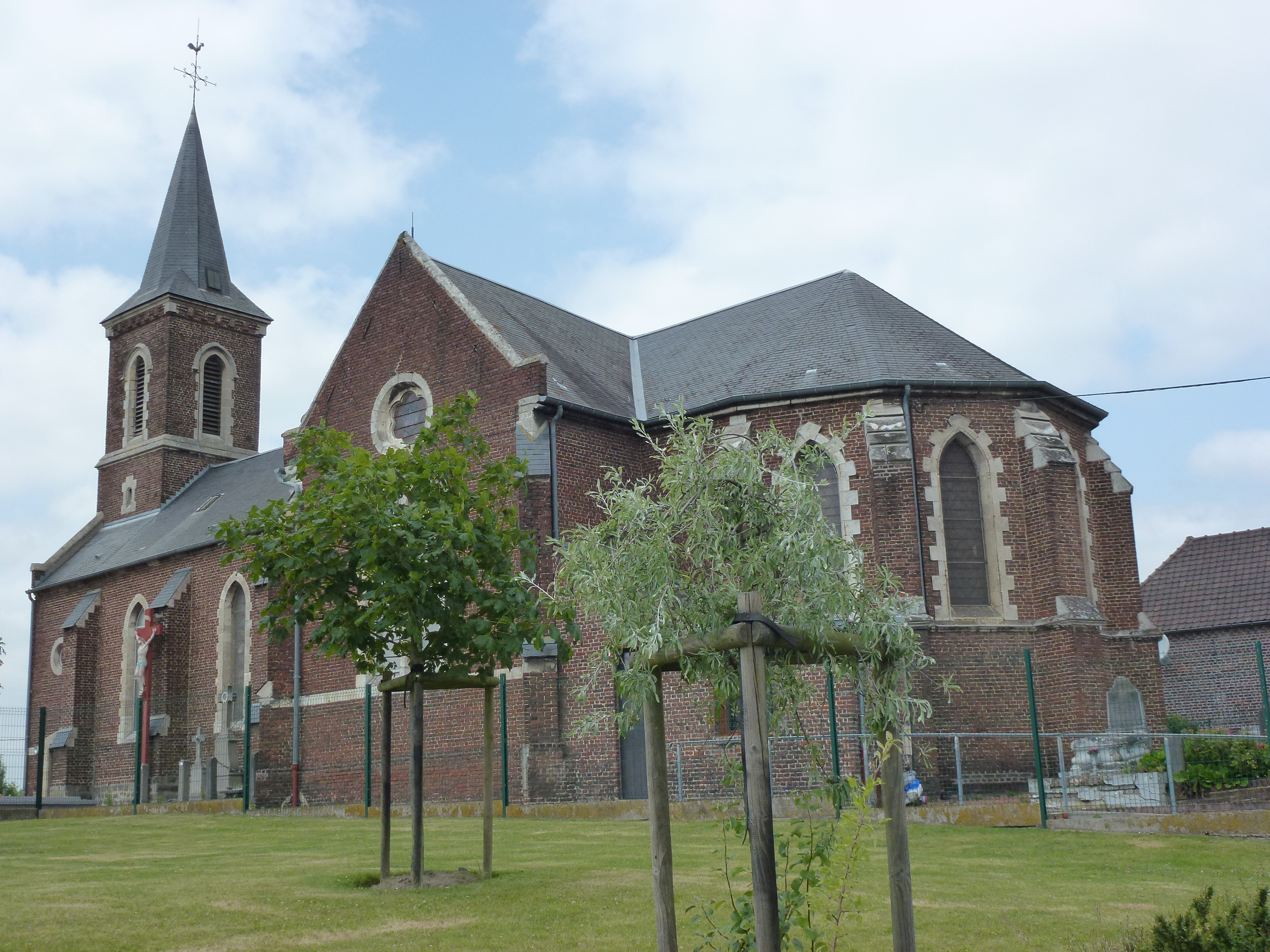 Isbergues Berguette (Pas-de-Calais) église